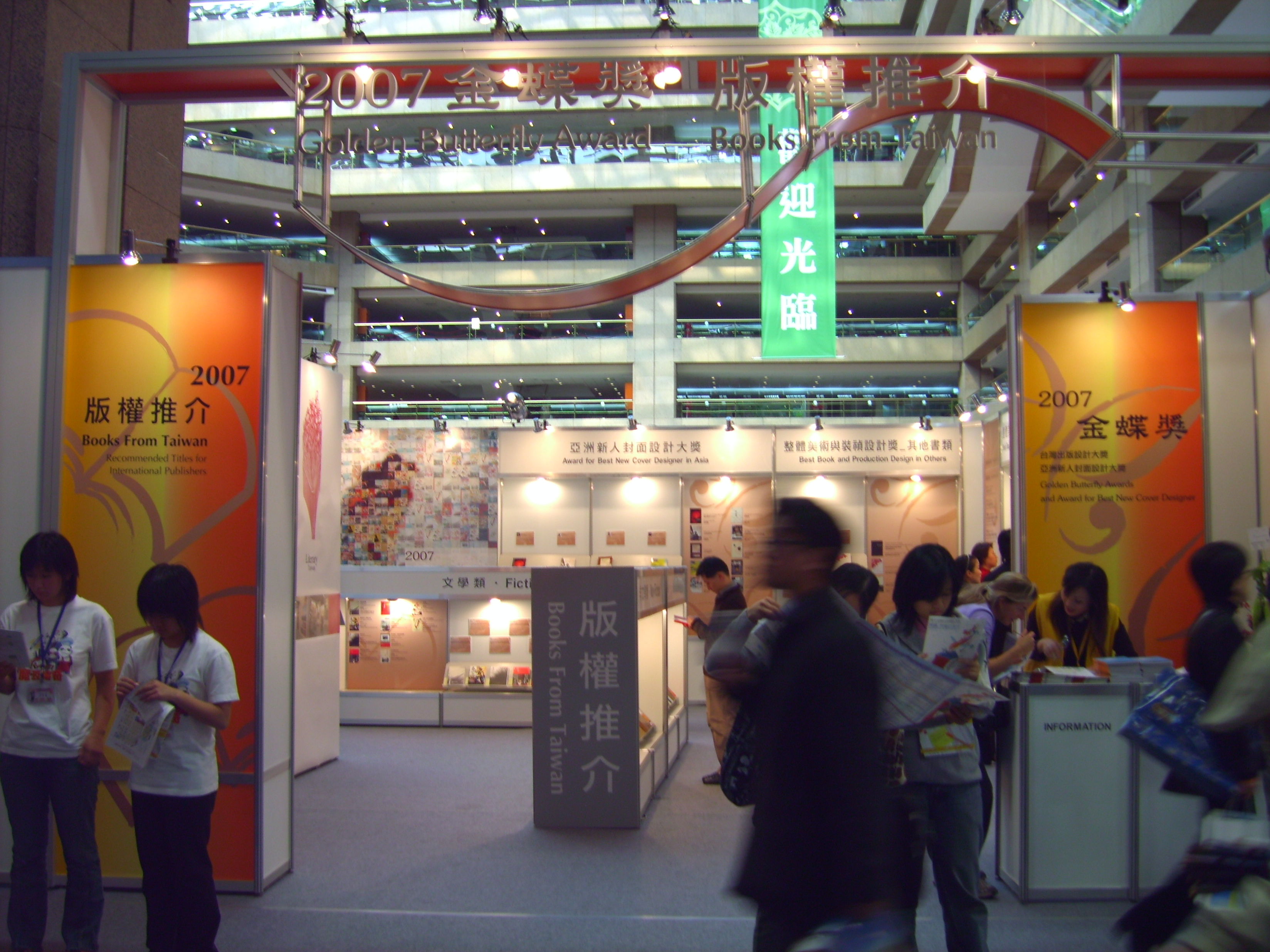 "Golden Butterfly Award" and "Books from Taiwan" Pavilion at 2007 the 15th Taipei International Book Exhibition.